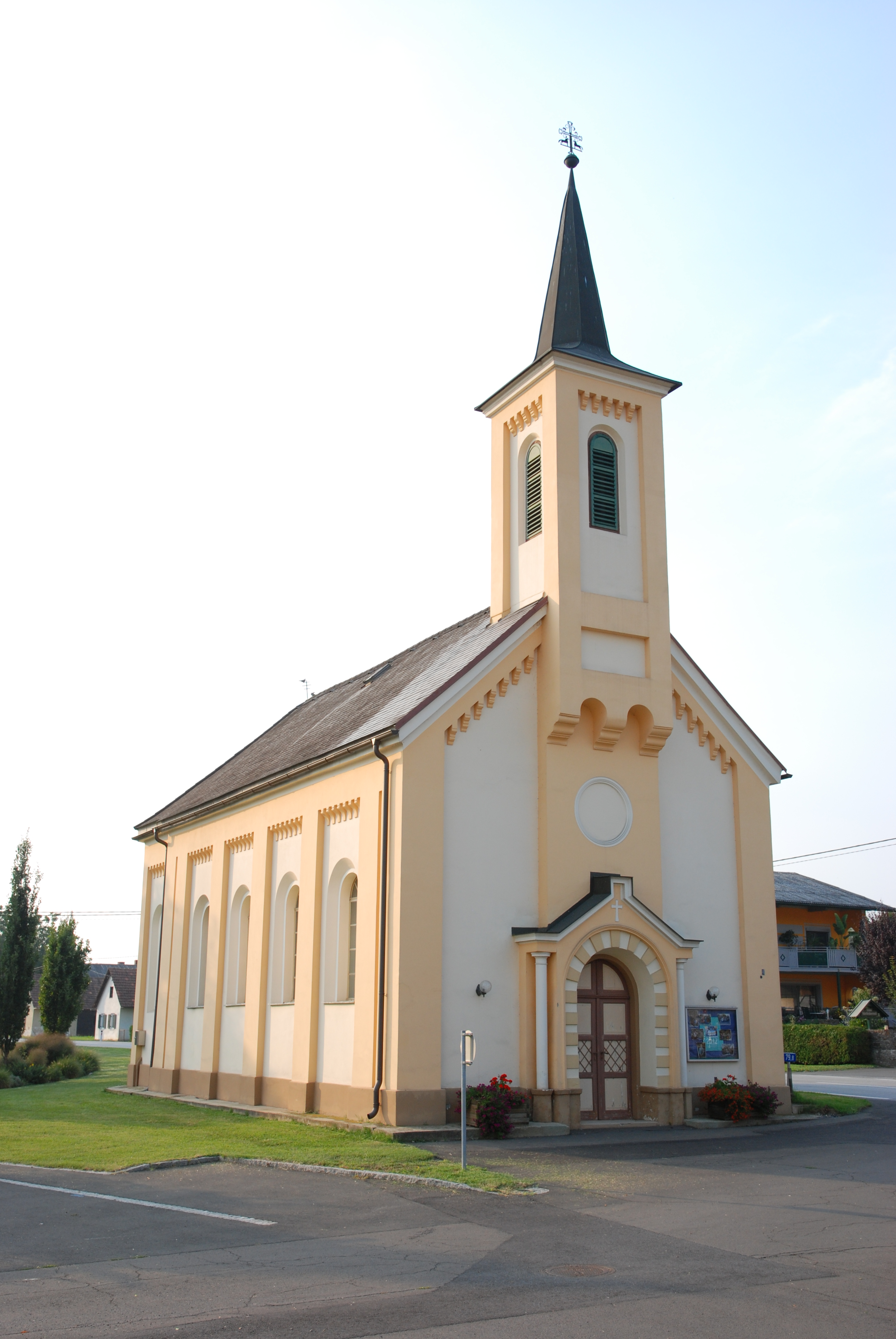 Kirche Lichendorf